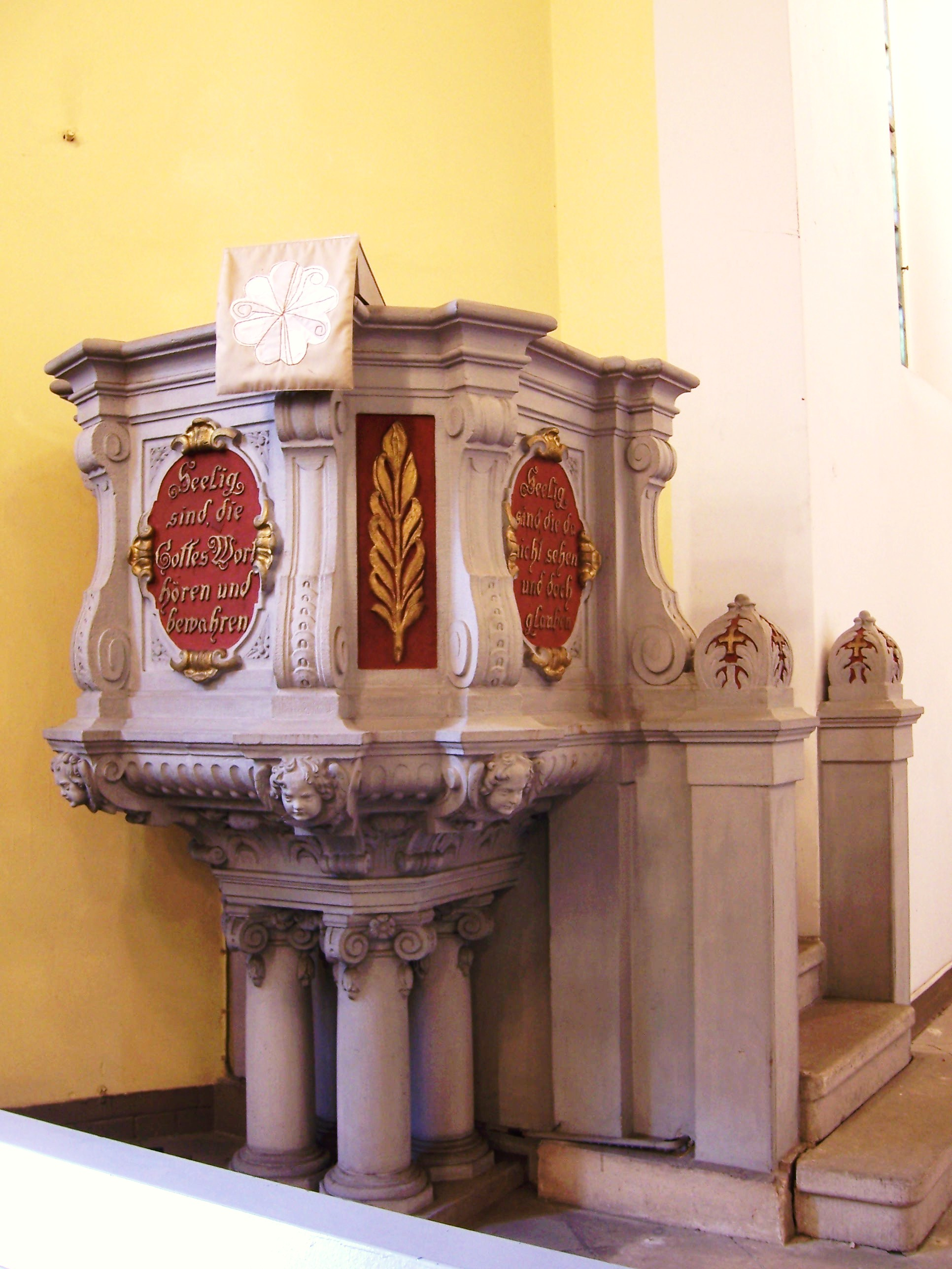 Limestone pulpit in the "Wilhelmine style"